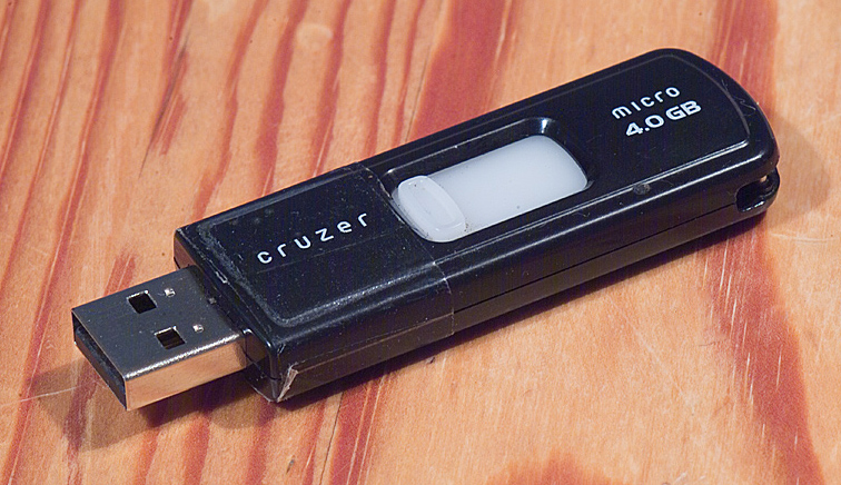 SanDisk Cruzer Micro USB flash drive Ett USB-Minne av typen SanDisk